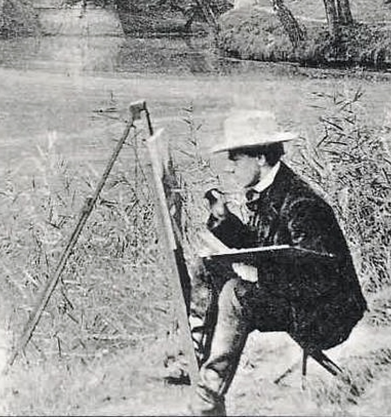 The Artist, 1903, Villeneuve l'Etang, detail. Possibly Henri Biva or his son Lucien Biva